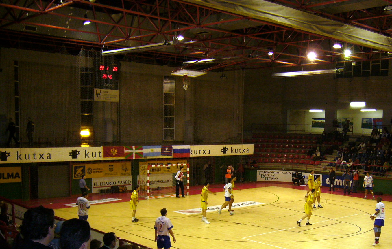 A handball match between J. D. Arrate and BM Valladolid in Ipurúa, Éibar, in 2006-07 Liga ASOBAL.